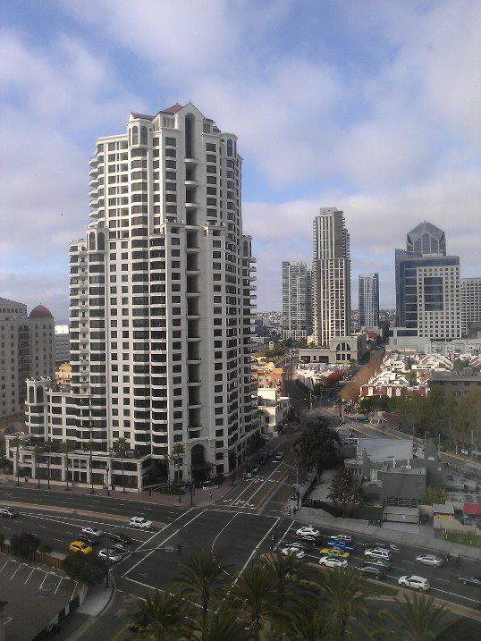 Down town san diego photo d ramey logan